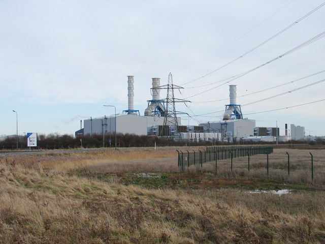 South Humber Power Station